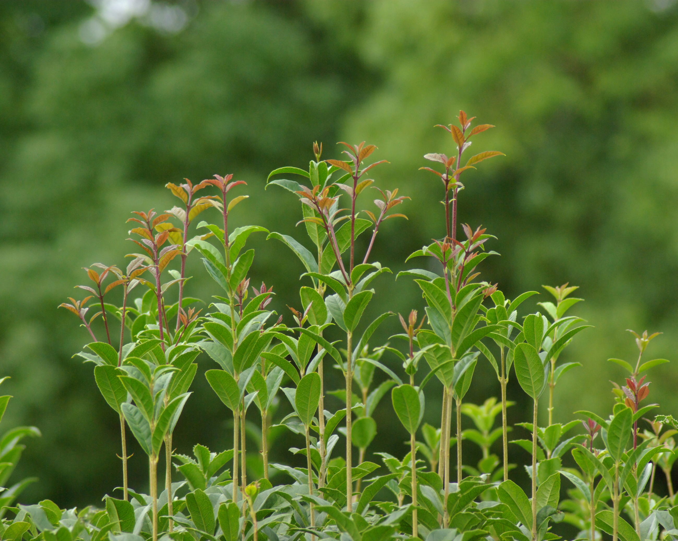 Leaves buds Camera Details: 6 Di LD Macro (Model A17)